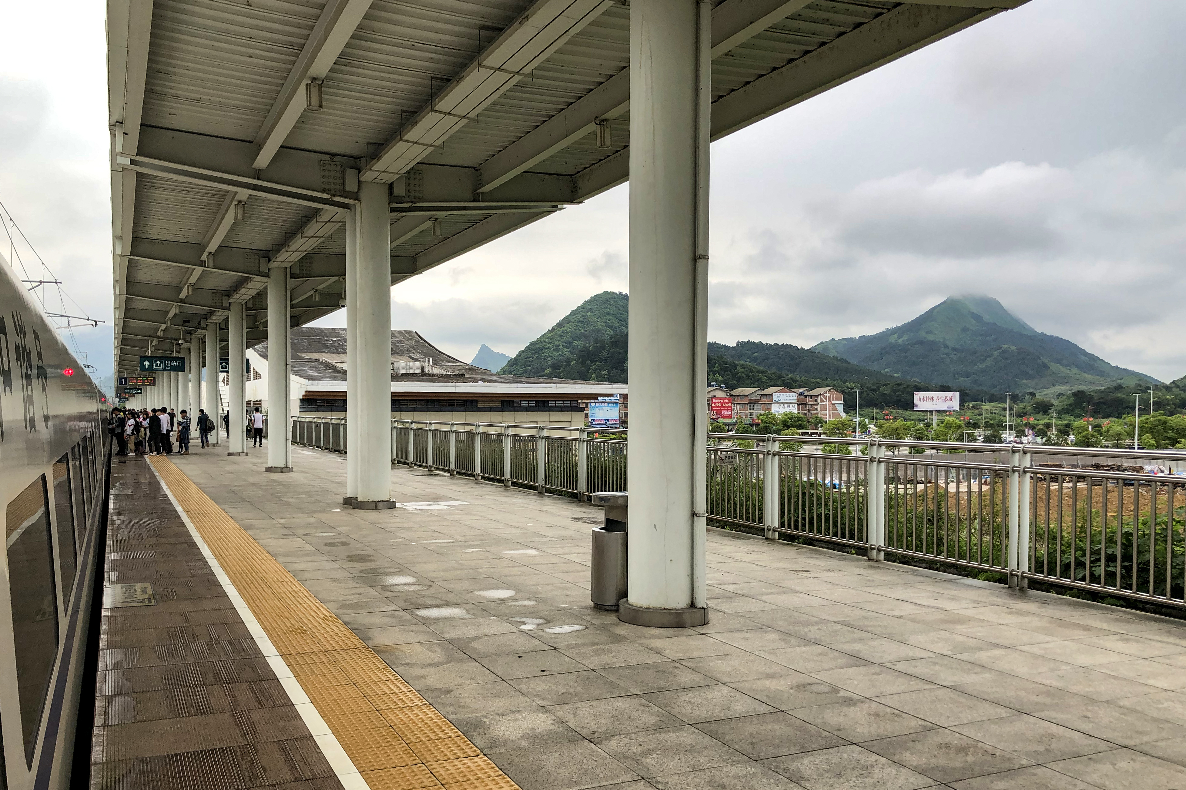 Gongcheng is a county under Guilin.